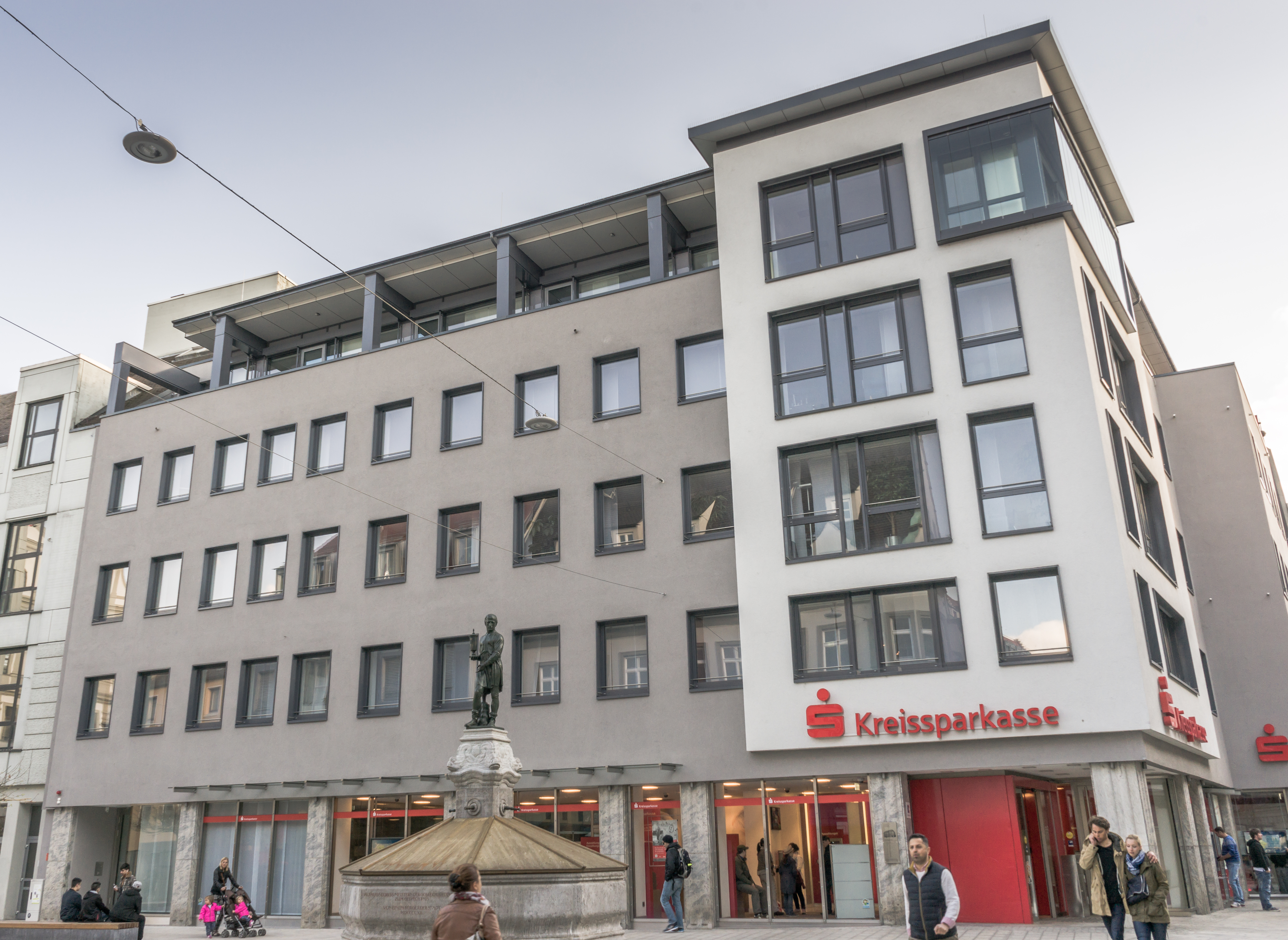 Kreissparkasse Augsburg view to the wider exposed side on Martin-Luther-Platz. In the foreground, the Goldschmiedebrunnen.